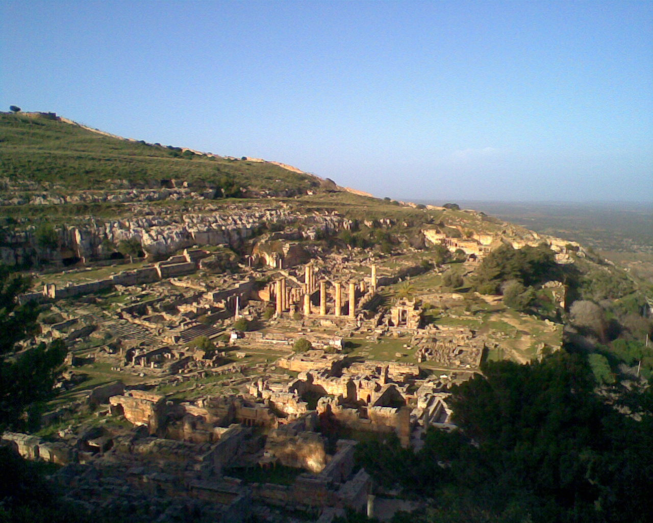 Ruins of Cyrene (Shahhat), Libya.